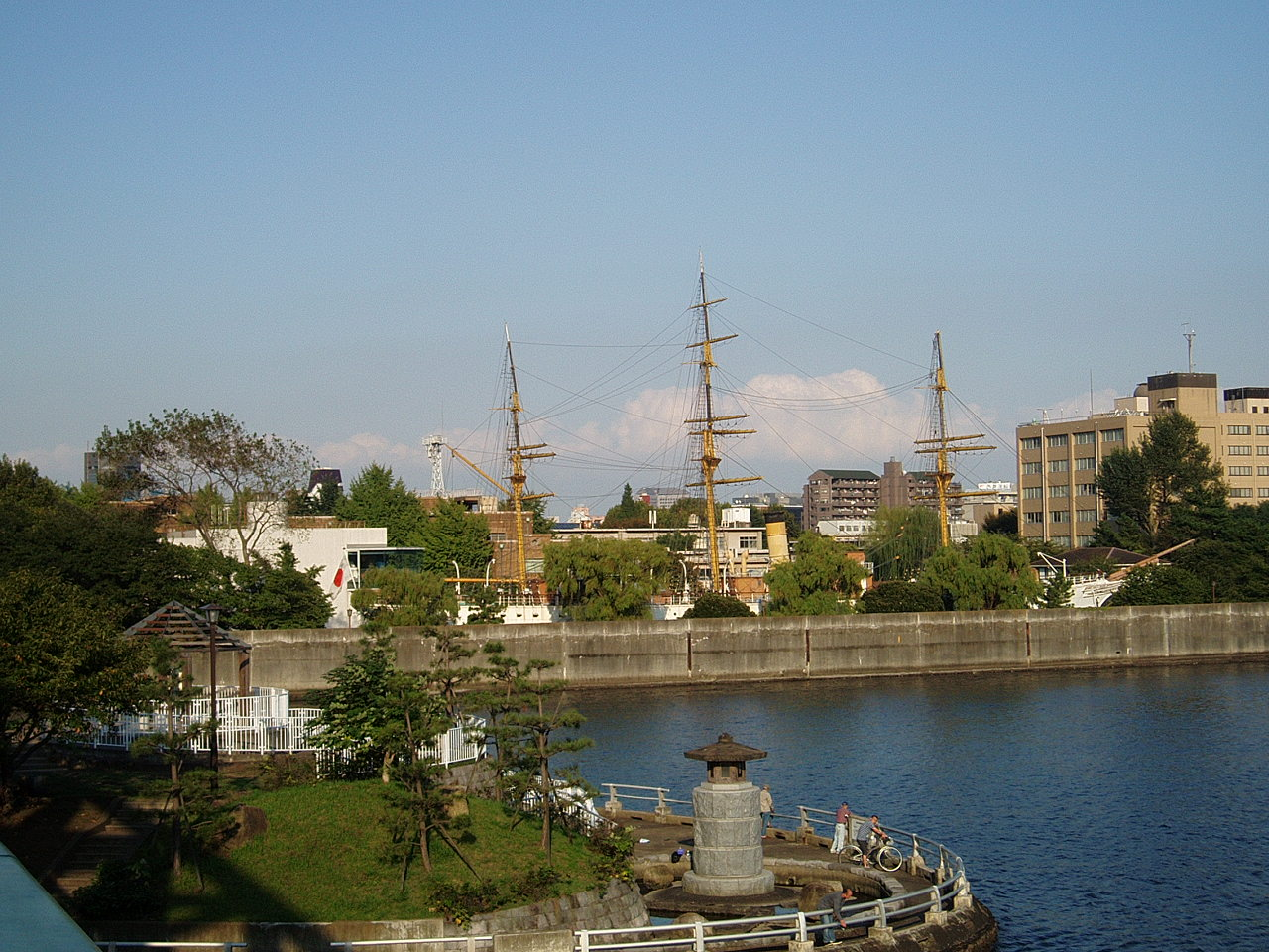 Etchujima Campus of Tokyo University of Marine Science and Technology(TUMSAT), viewed from Aioi Bridge. Behind the bank is the former school ship Meiji-maru (明治丸).